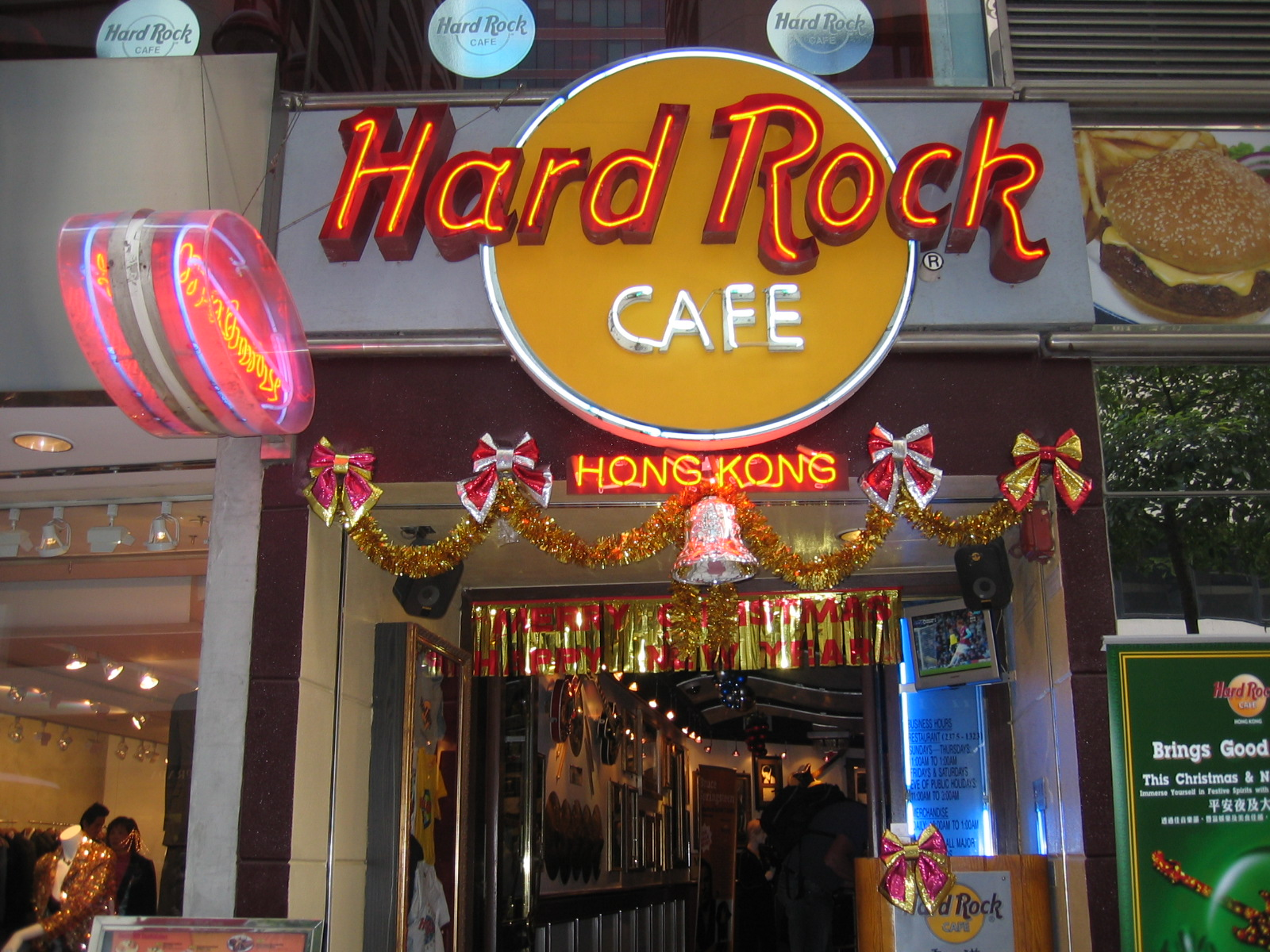 A Hard Rock Cafe restaurant at Tsim Sha Tsui, Hong Kong.